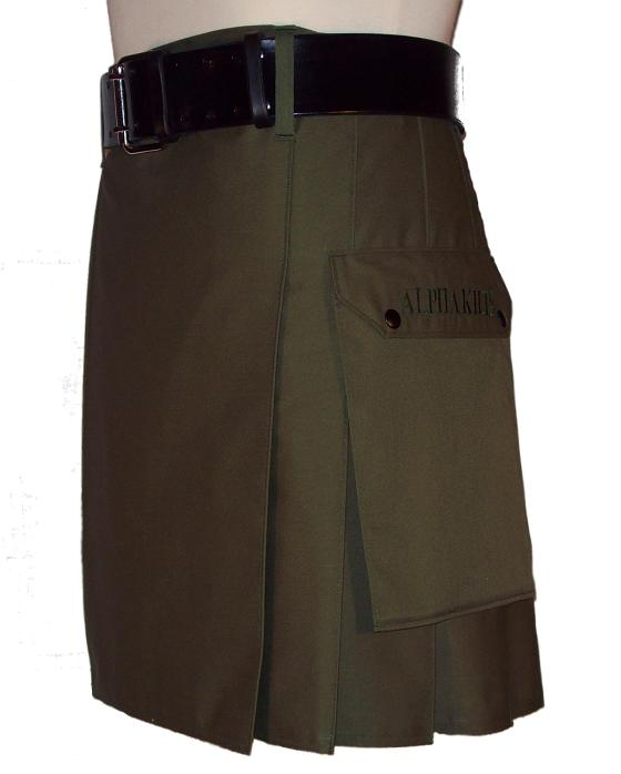 This is an example of a contemporary kilts also known as a modern kilt, neo-traditional kilt, or American kilt.